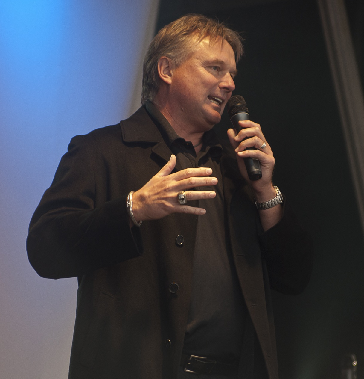 Morten Andersen (born August 19, 1960 in Copenhagen, Denmark) is a former American football kicker. He holds the distinction of being the all-time leading scorer in NFL history, as well as being the all-time leading scorer for two different teams; the New Orleans Saints, with whom he spent 13 seasons, and the Atlanta Falcons, with whom he spent a combined eight seasons. He is known as "The Great Dane."